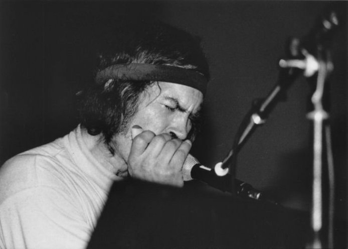 Rob Hoeke